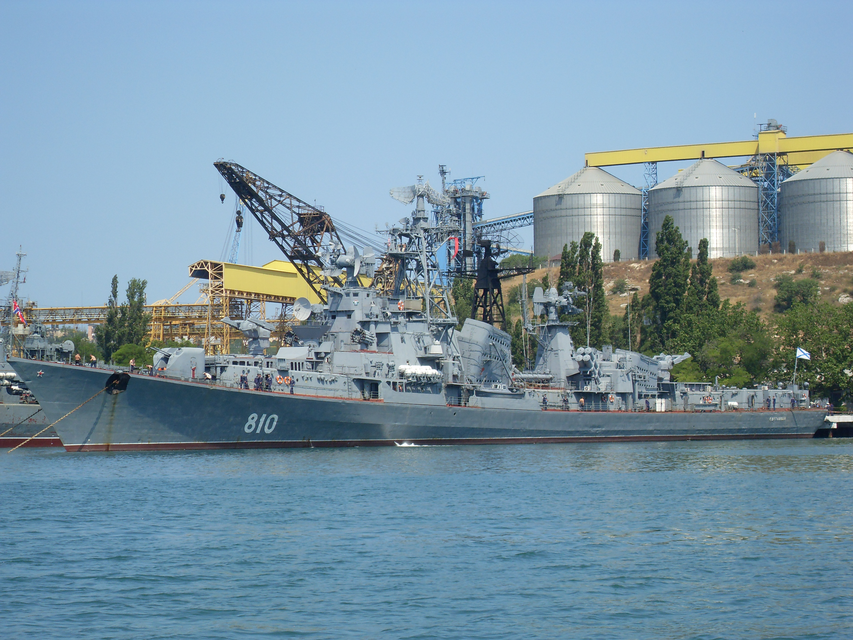 The Russian guard ship Smetlivy.